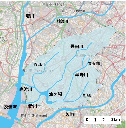 Map of the tributaries of Takahama River in Aichi Prefecture, Japan